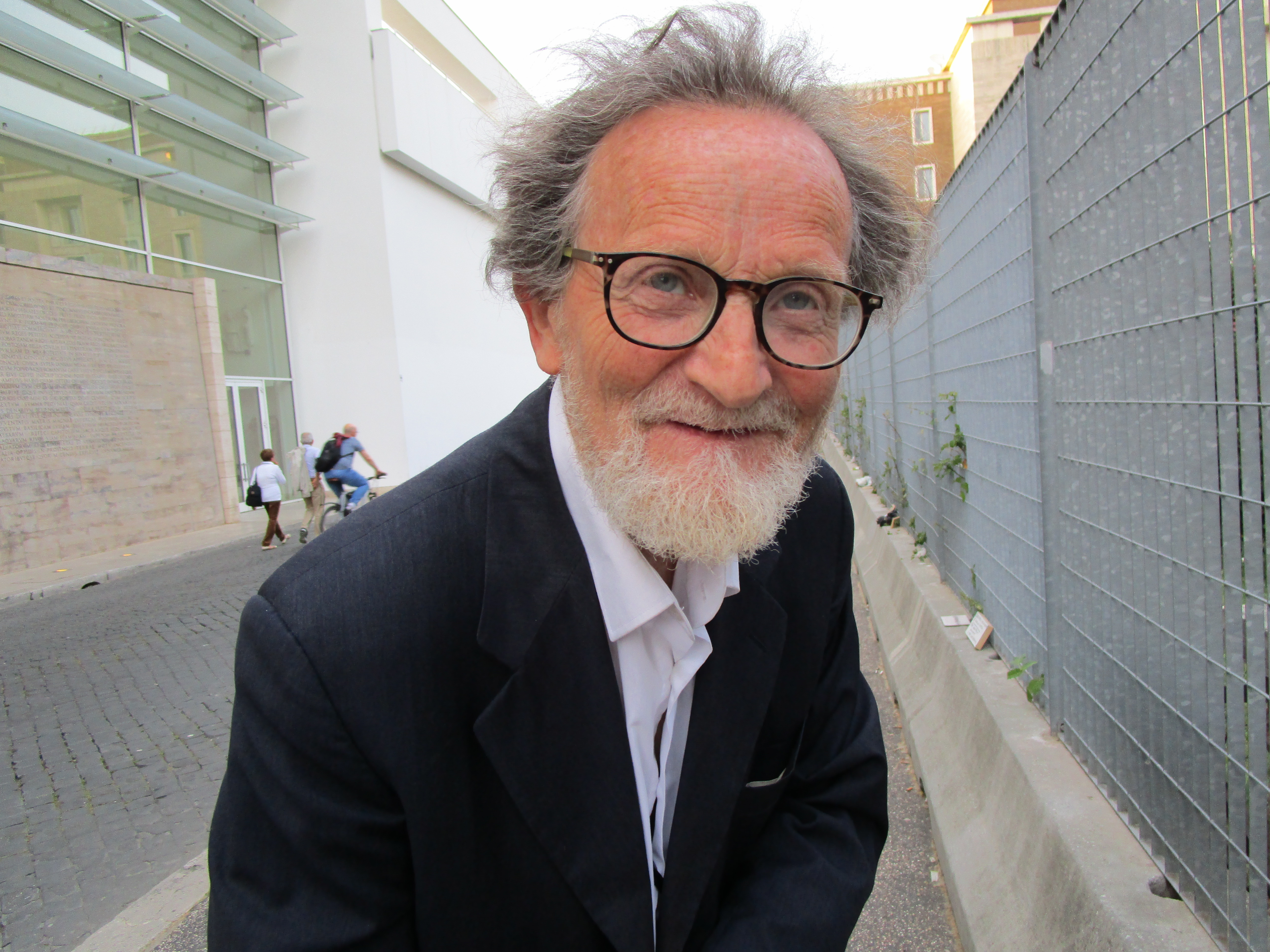 Fausto Delle Chiaie, Italian artist.